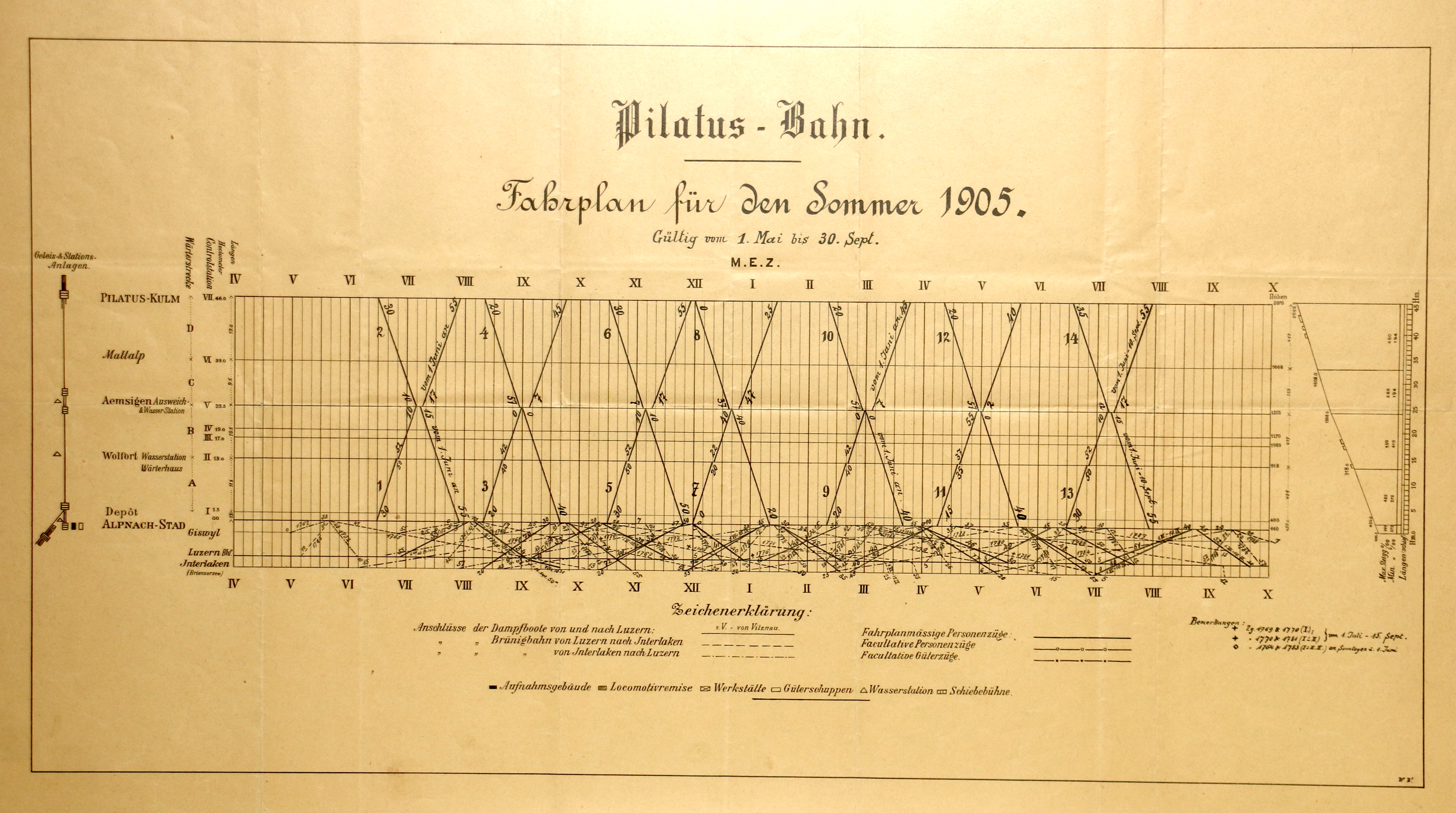 Time Table Railway Alpnach Stad - Pilatus Kulm from 1905